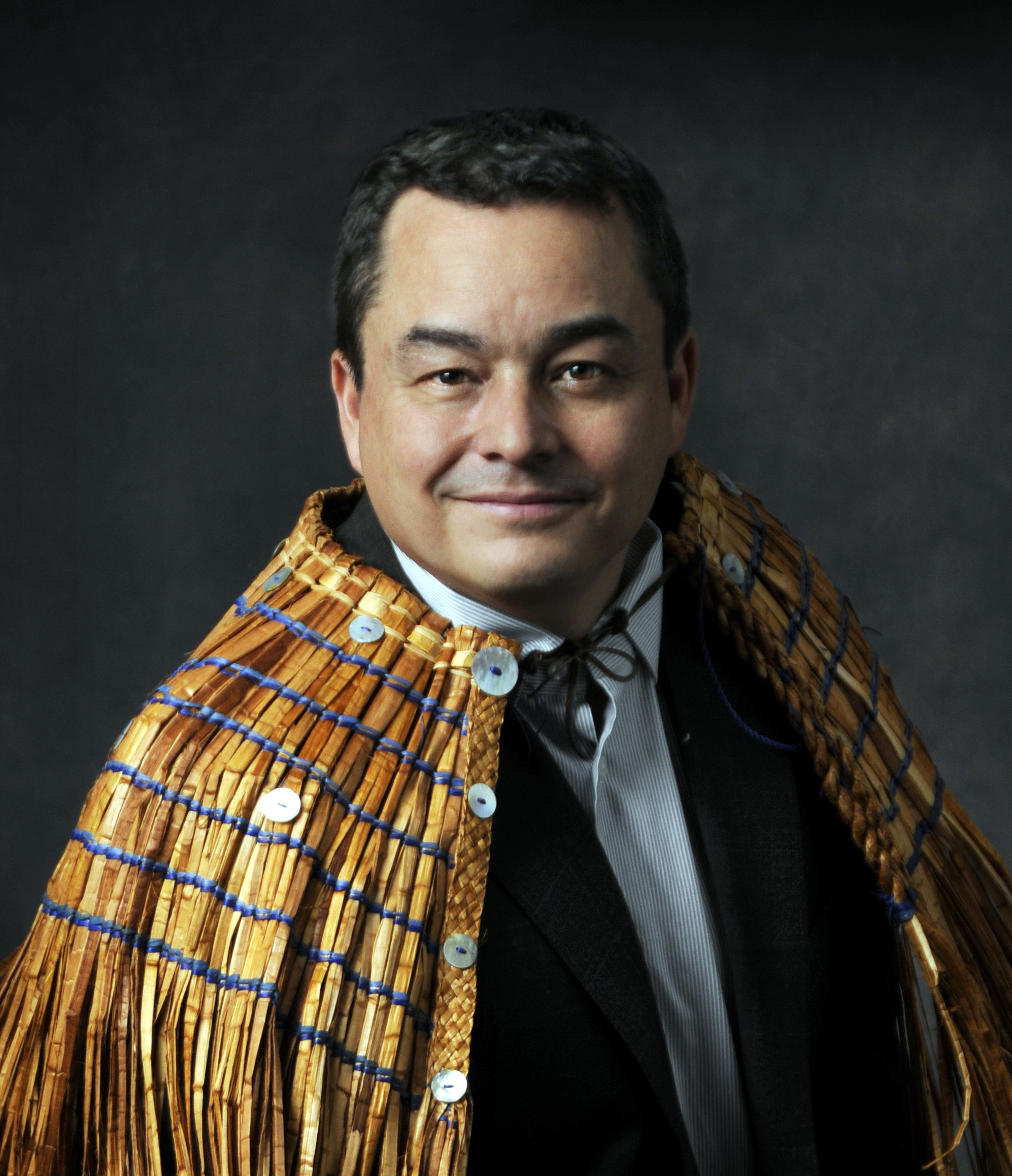 chef of assembly of first nations